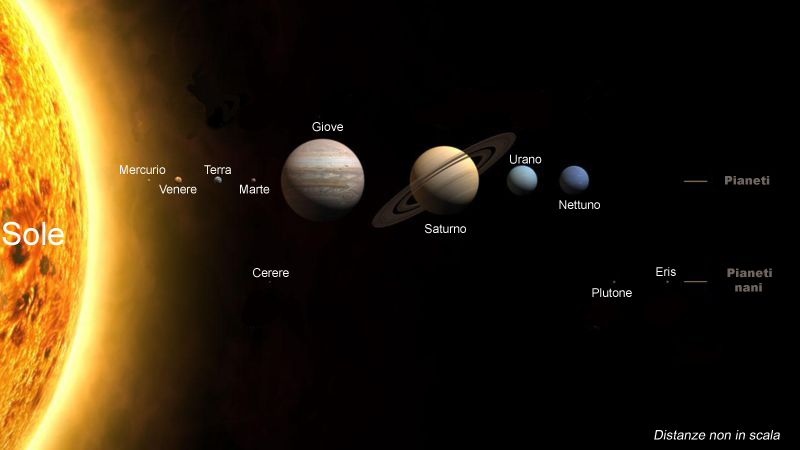 The Solar System; Italian translation of Image:UpdatedPlanets2006.jpg